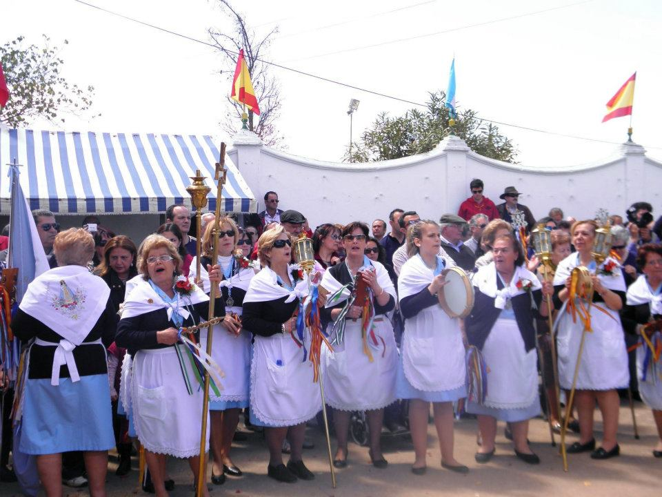 Lavanderas amenizan con sus cánticos e instrumentos la procesión.